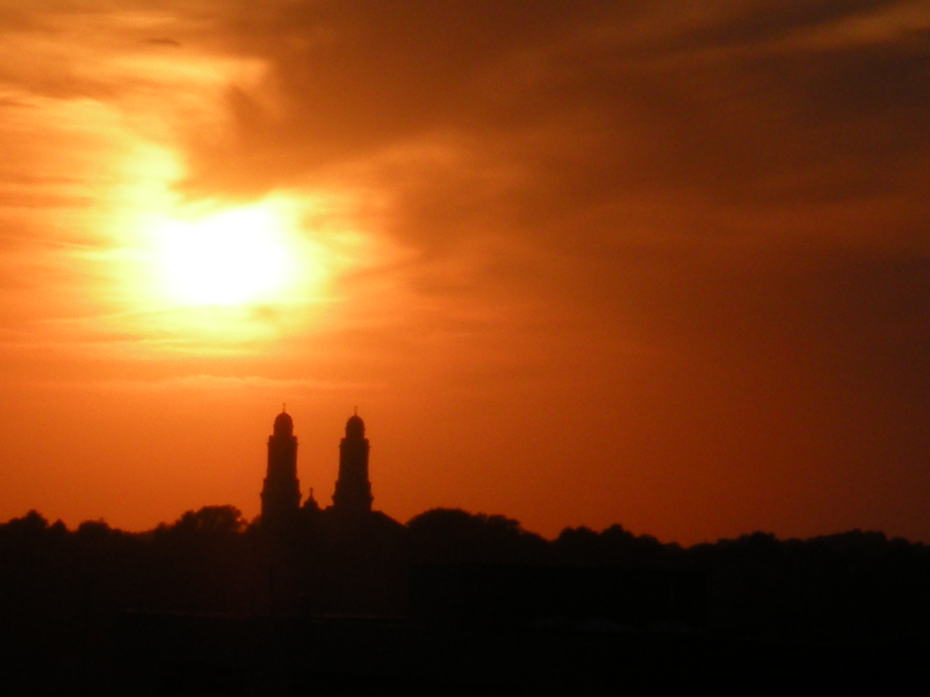 I took this photo of an Omaha sunset in 2008